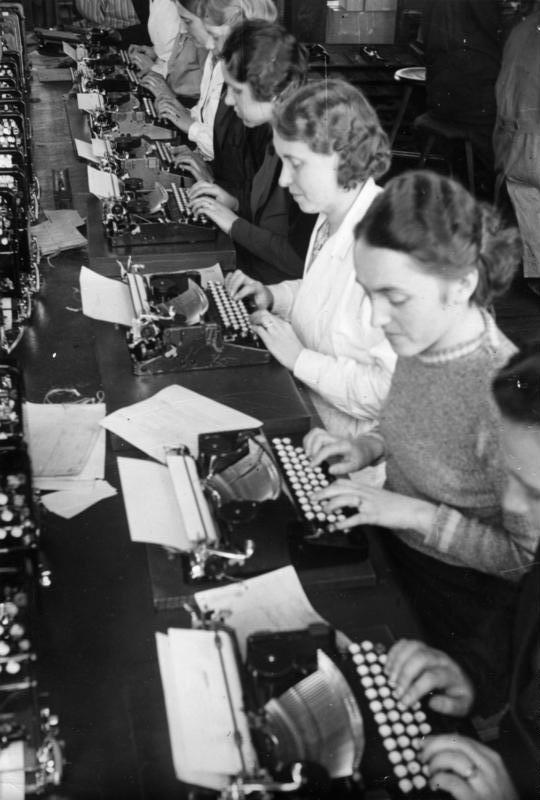 Dresden, typewriter factory Scherl Bilderdienst: Seidel & Naumann Dresden ADN-ZB-Archive Germany: Final check in the typewriter factory Seidel and Naumann in Dresden. Photo: c. 1934